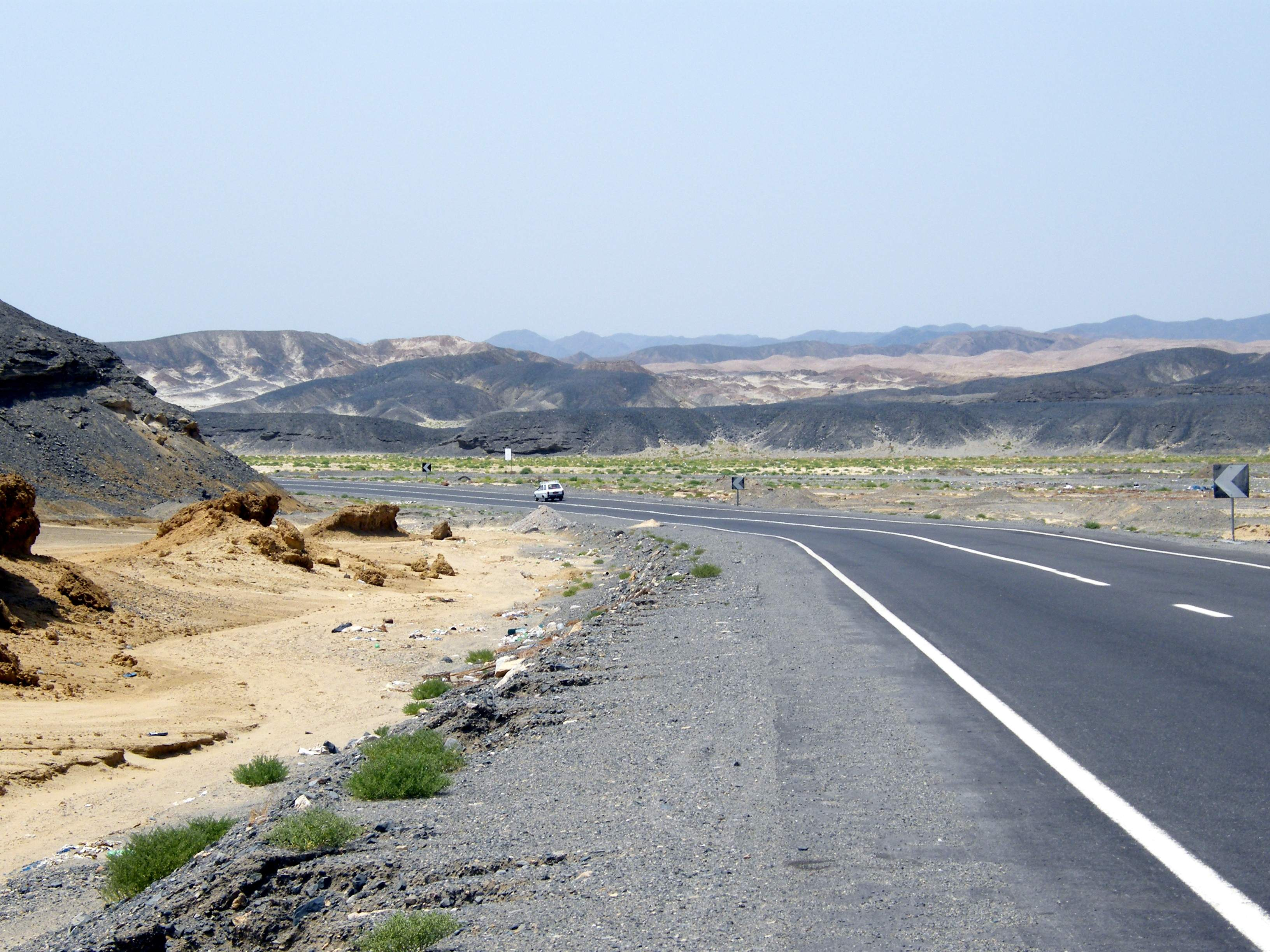 Qesm Marsa Alam, Red Sea Governorate, Egypt